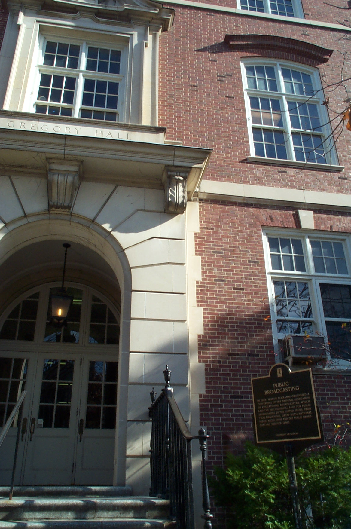 The Gregory Hall on the campus of University of Illinois, Urbana-Champaign hosted an important meeting of the National Association of Educational Broadcasters in the 1940s that spawned the PBS and the NPR. Photograph taken 2005-11. Copyright © 2005 Kaihsu Tai.